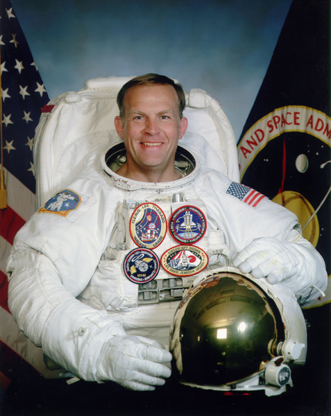 NASA Astronaut, Mark Charles Lee